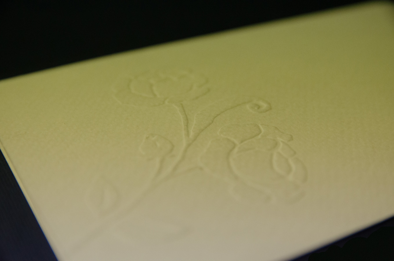 Wedding announcements craft with pink embossed product photograph taken at the Printing Vittoria Florence that has provided its products letterpress printing to take pictures.